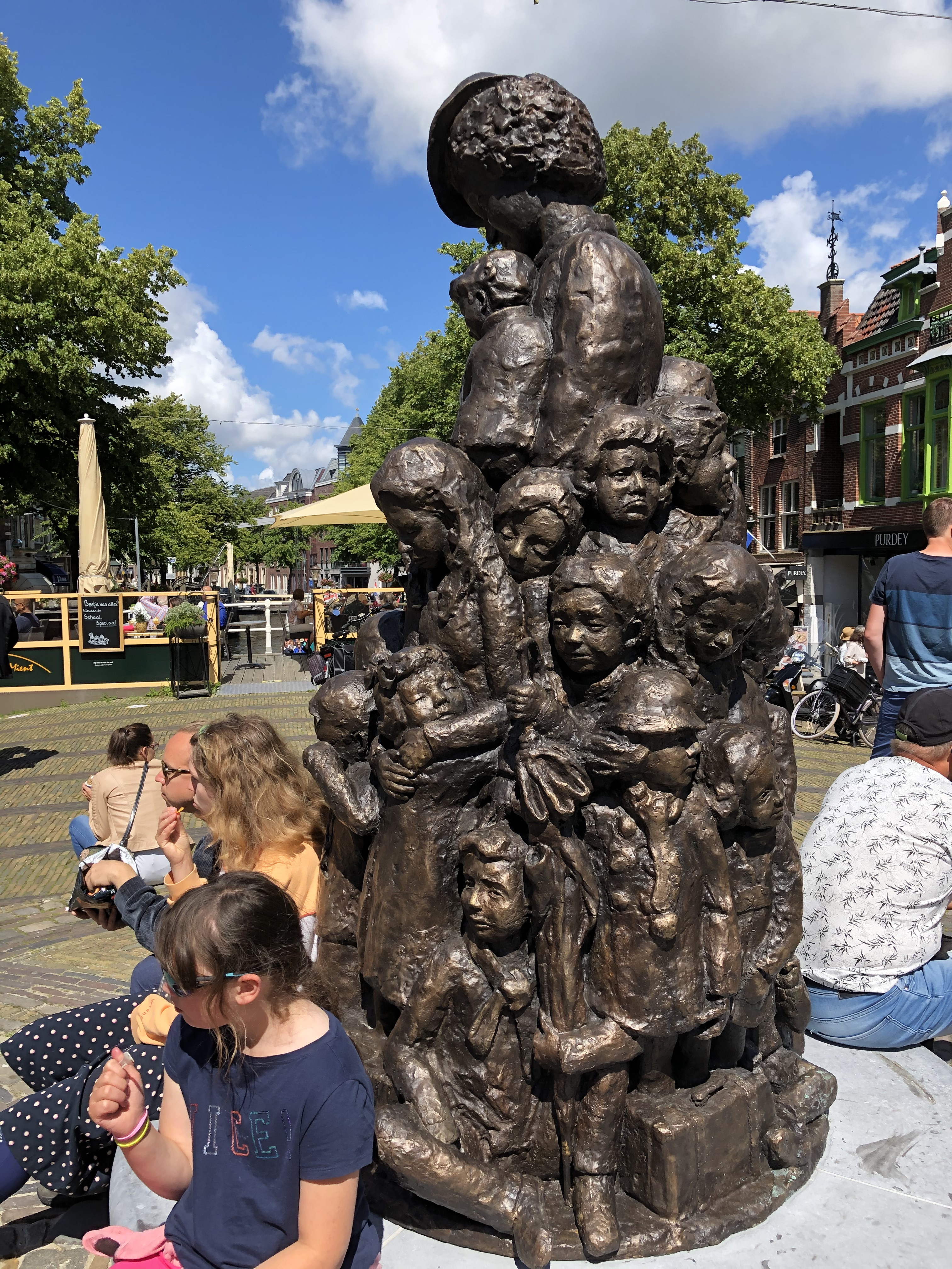 Statue by Annet Terberg of Geertruida Wijsmuller-Meijer with representative images of children rescued by her that was placed in Alkmaar in July 2020.